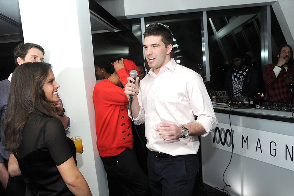 A photo of American tech entrepreneur Billy McFarland at a 2014 Magnises event.